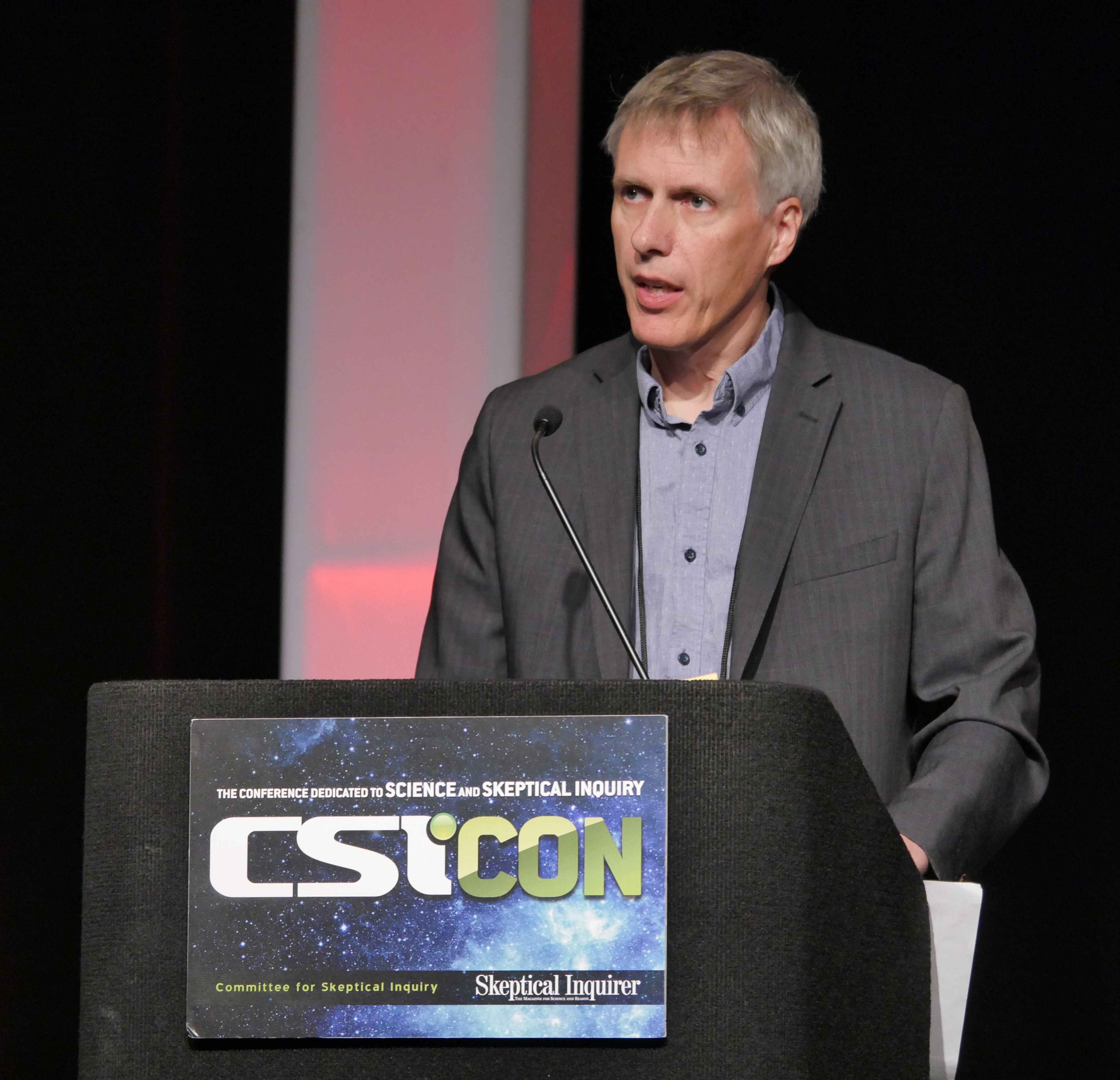 Mick West CSICon 2018 Debunking 9-11 Microsphere Myths